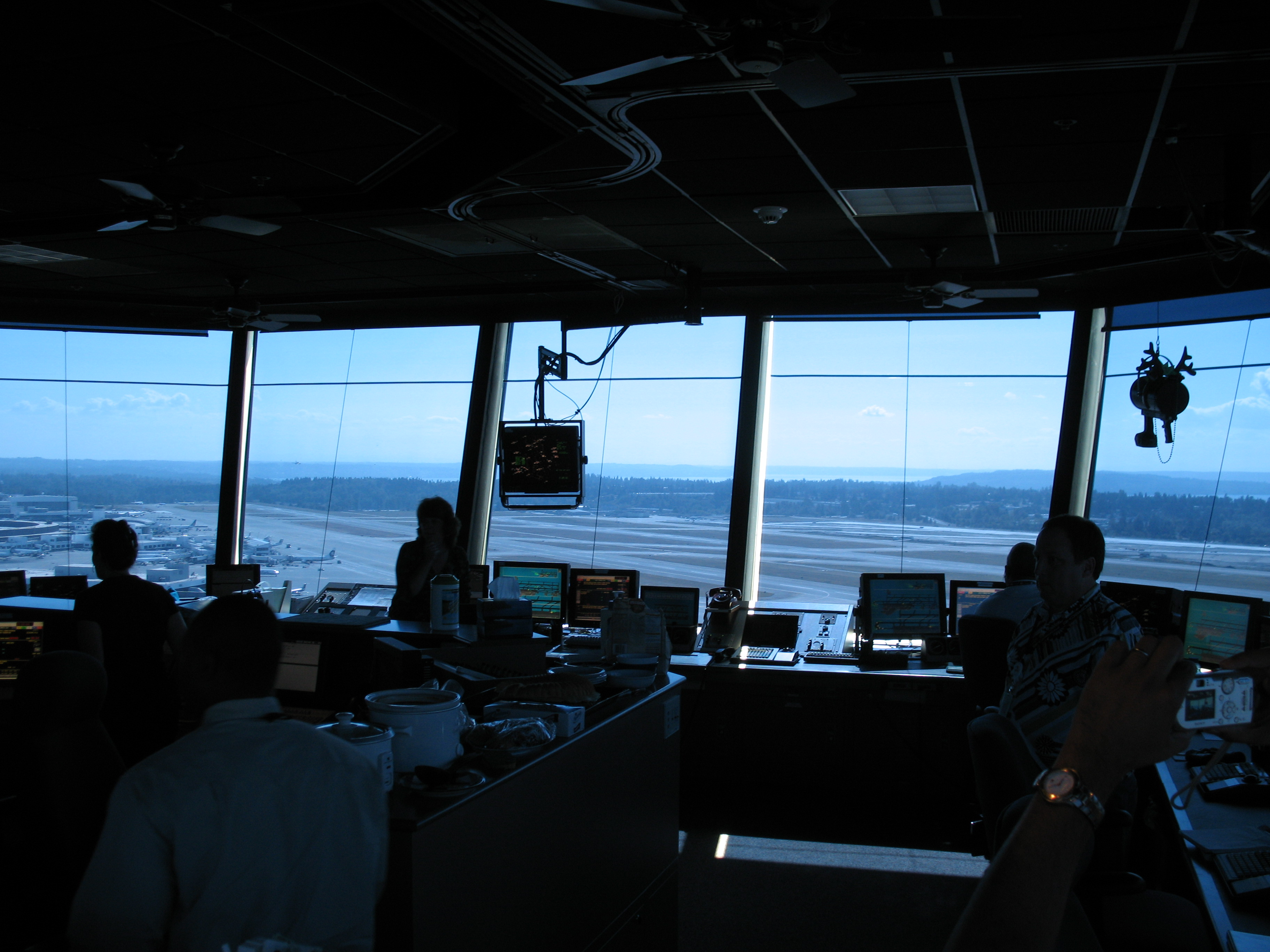 A view of the interior of the Seattle-Tacoma (SeaTac) international airport control tower, looking south-west. The passenger terminals are visible on the far left. Runways 16C/34C and 16L/34R are visible through the windows, with Puget Sound in the background. Hanging from the ceiling are a radar display and airport's light gun in case of an aircraft with a communications failure.